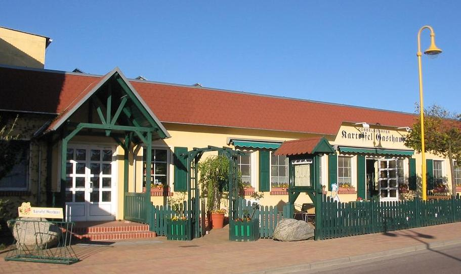 „Cobbelsdorfer Kartoffel Gasthaus“ (Potato-inn). The village Cobbelsdorf is a municipality in the Nature park Fläming in the district Anhalt-Zerbst, state Saxony-Anhalt, Germany.